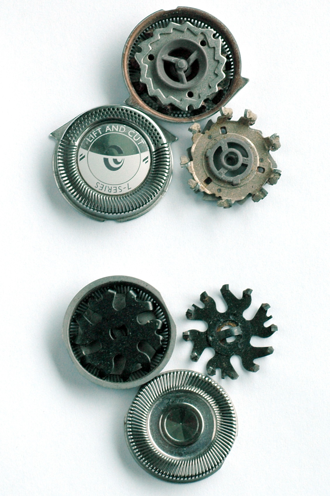 Disassembled Philips electric shaver rotary head. Shaver heads of Philishave 662 (top) and shaver heads of Philishave HP 1208 (bottom).